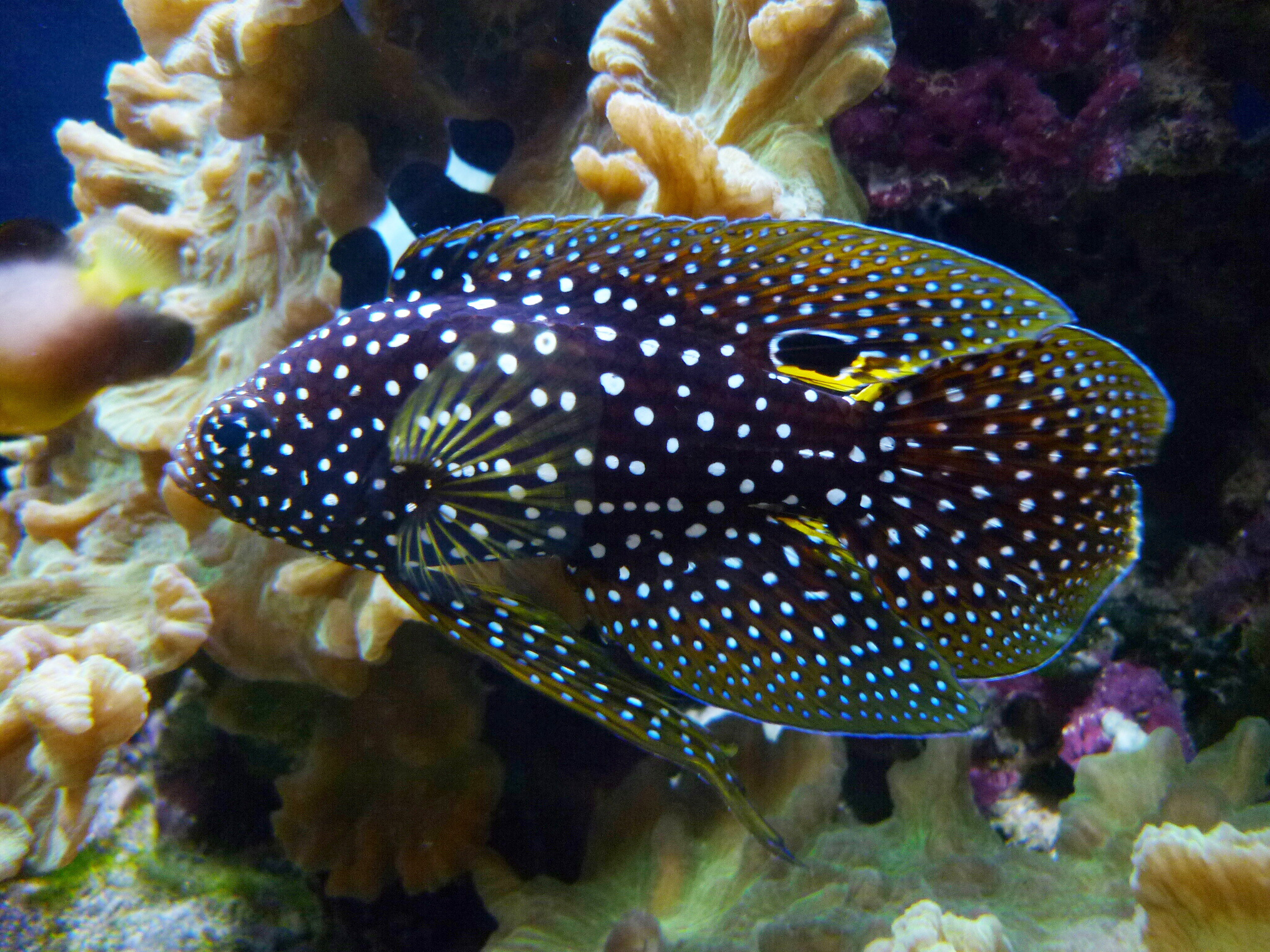 Marine Comet (Calloplesiops altivelis) in Waikiki Aquarium.